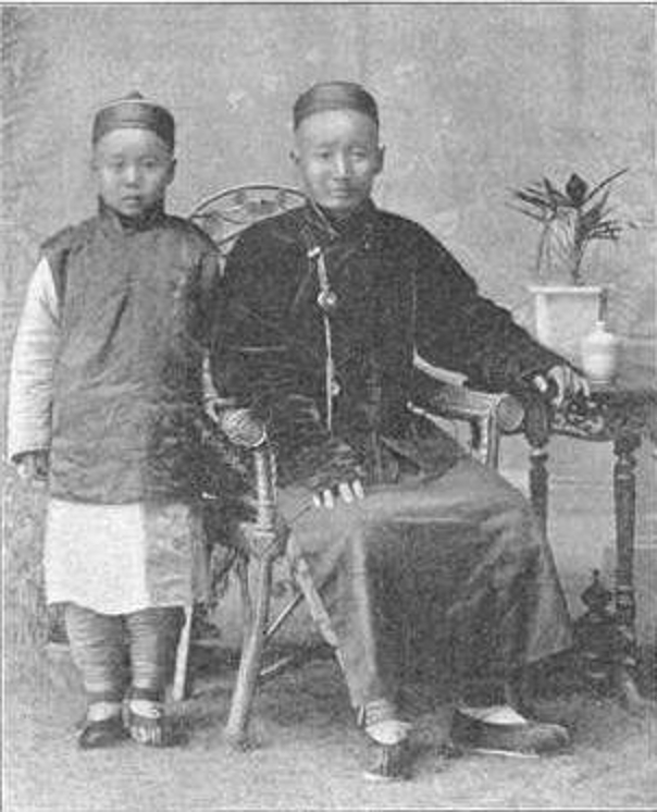 Kaïfeng Jews (Honan), or chinese jews. End of the XIXe century, or begining of the XXe century. Caption read: "© "